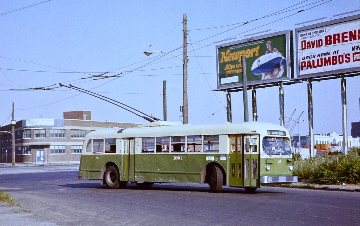 SEPTA (Philadelphia) trolleybus 215, a 1947 ACF-Brill TC44, turns west onto Snyder Avenue from Columbus Blvd., at the east end of route 79, in 1978.